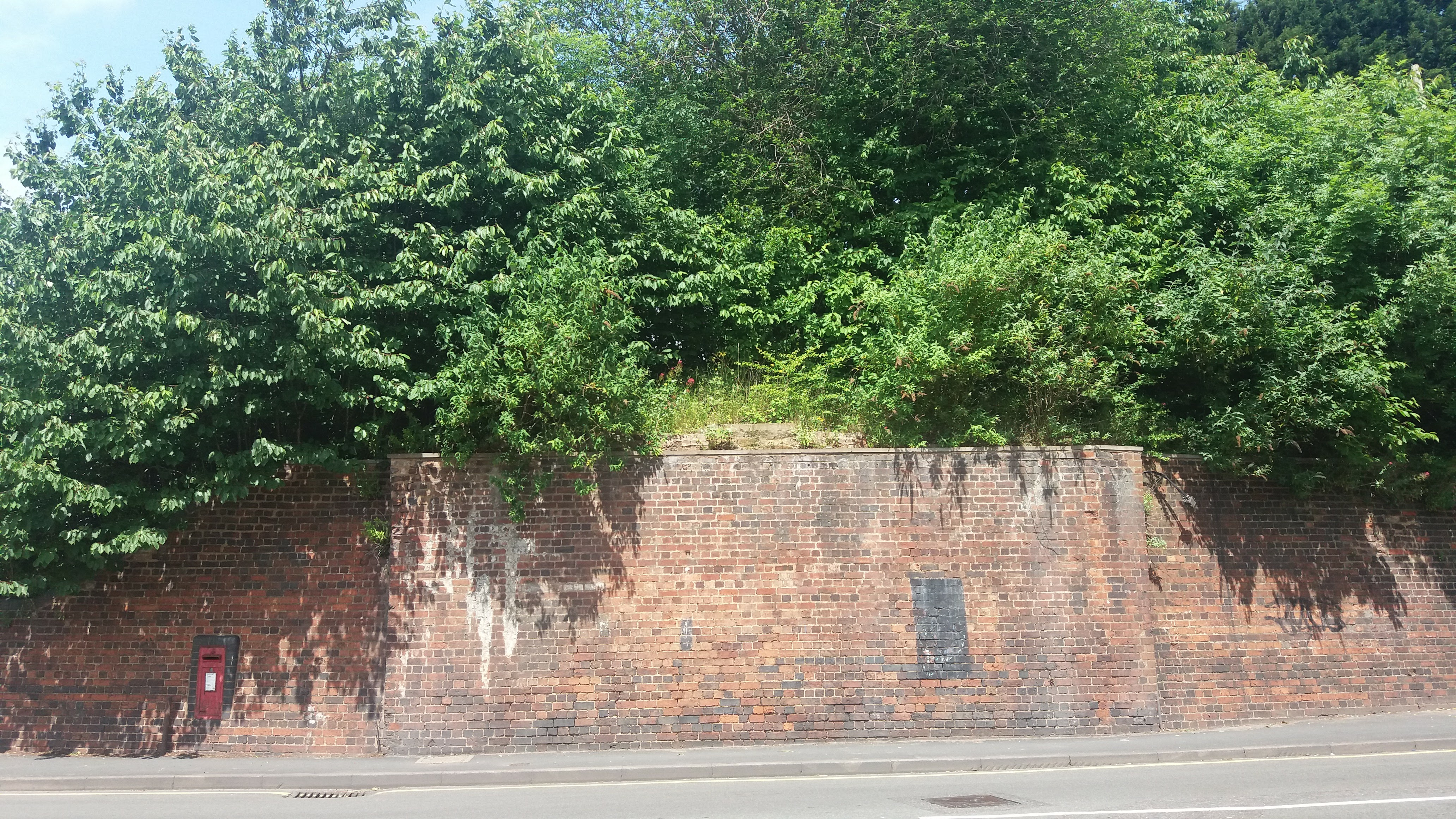 To update the page.